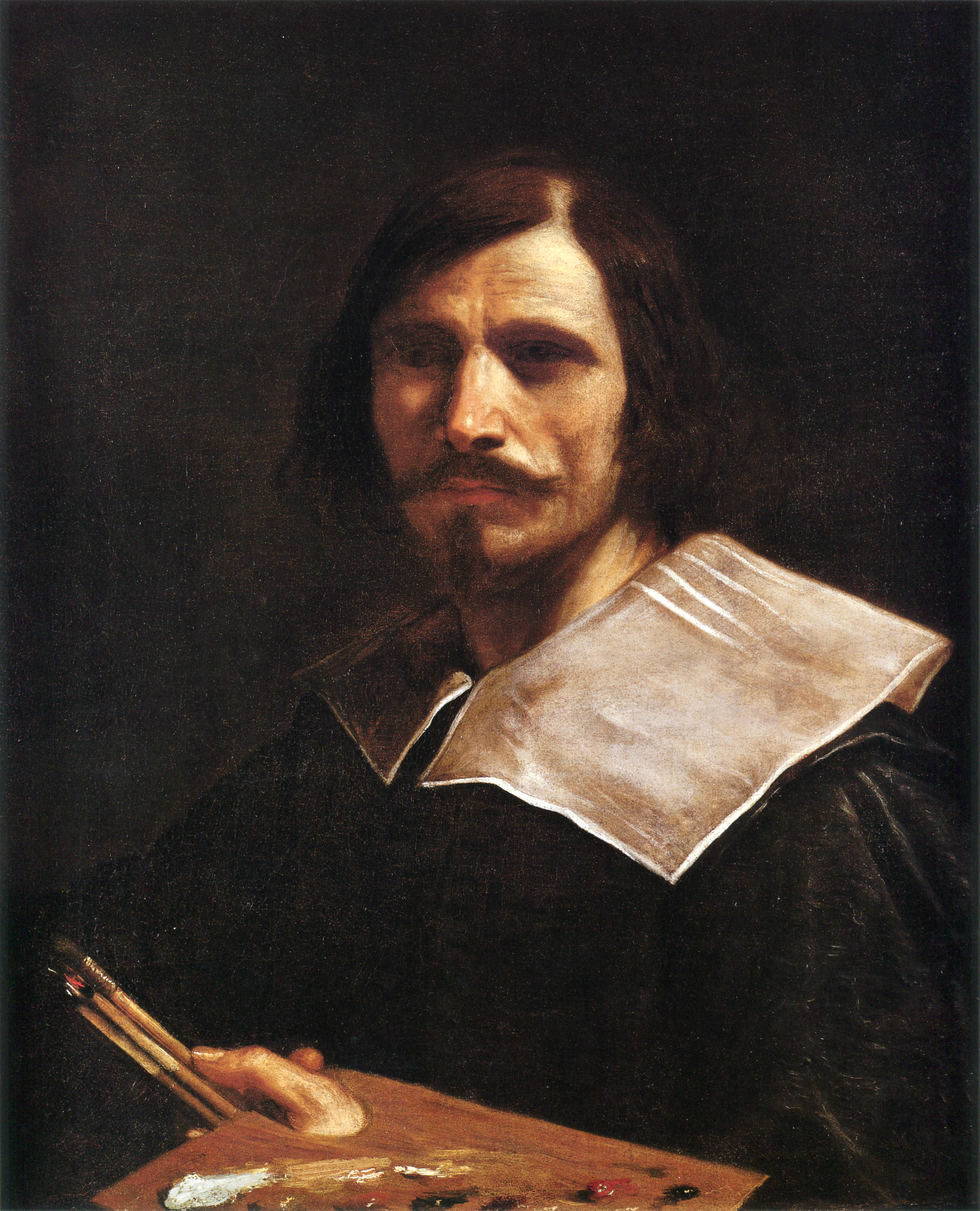 Self-portrait. Oil on canvas, 641 x 521 mm (25 1/4 x 20 1/2"). Private Collection, courtesy Richard L. Feigen & Co. Sydney only.